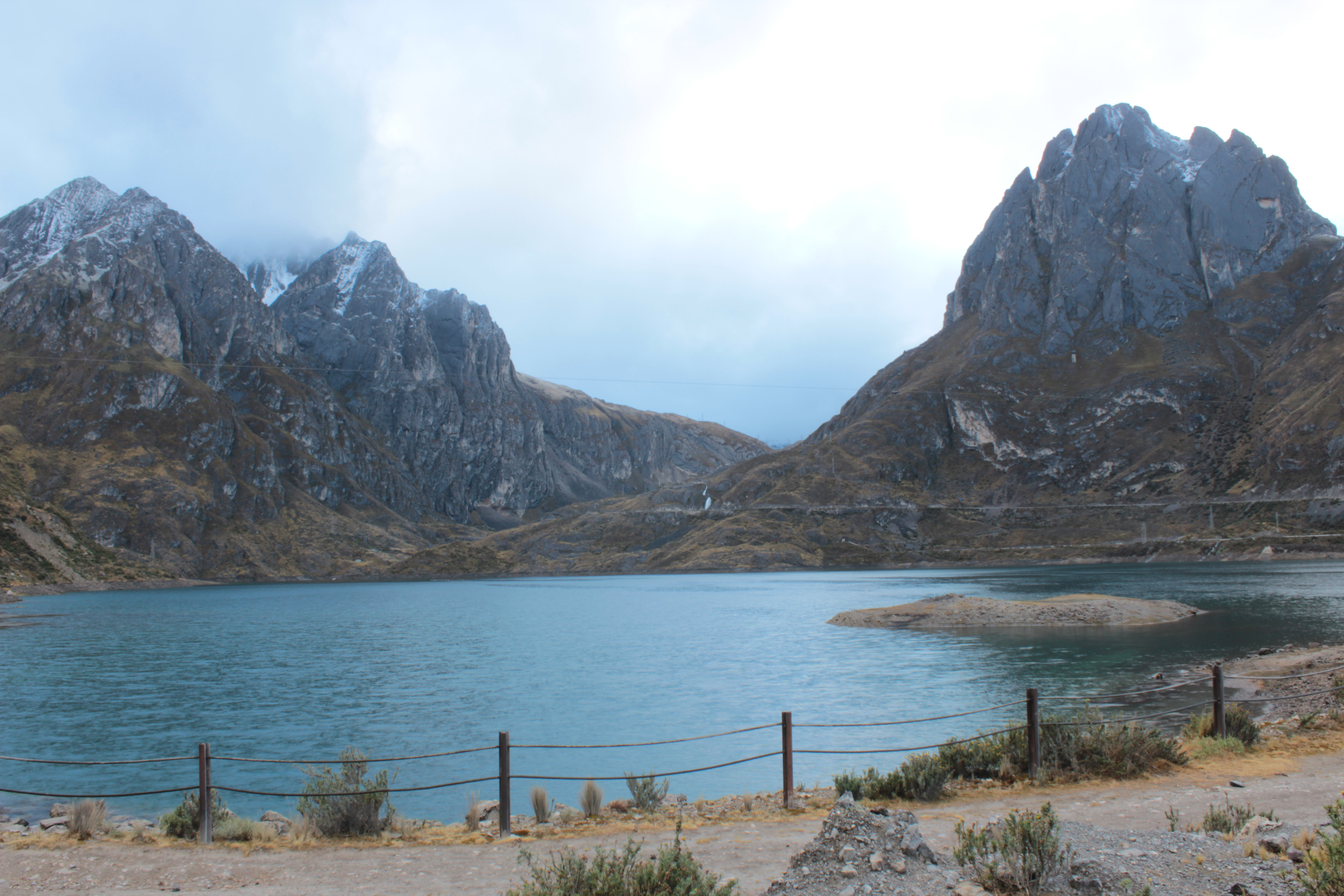 Paton Lagoon (altitude : 4090 meters)